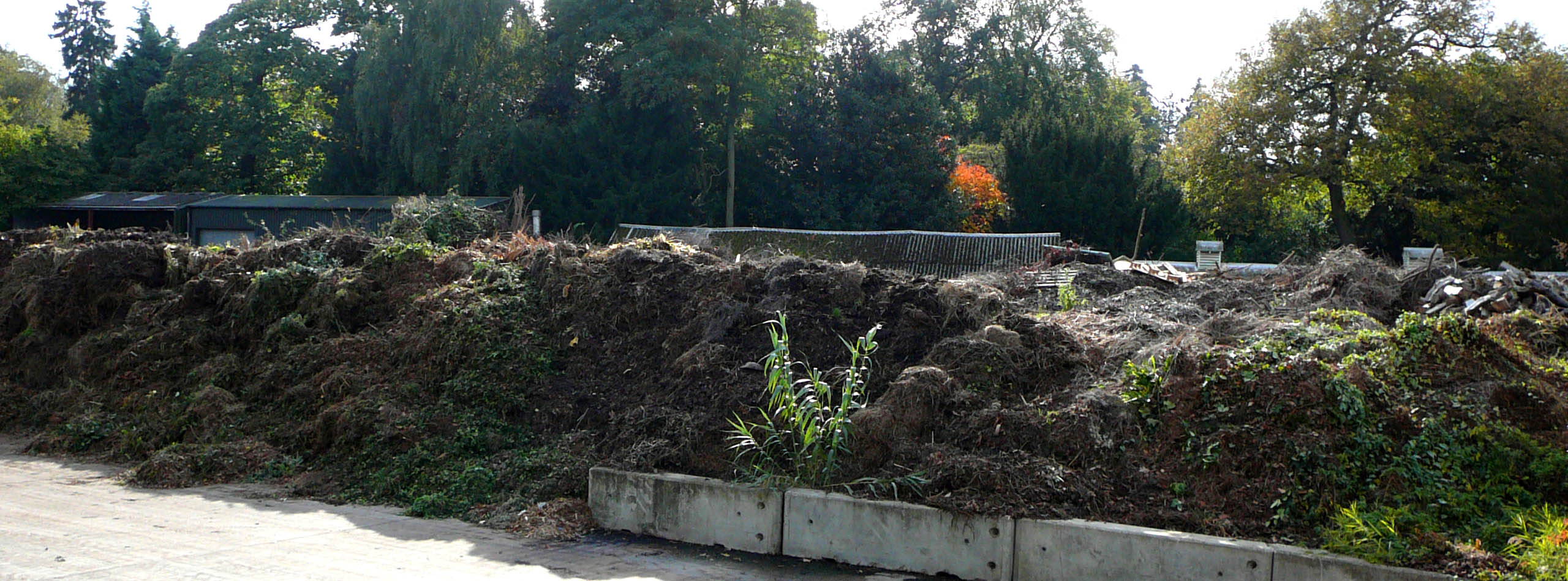 Compost heap - Kew Gardens - London